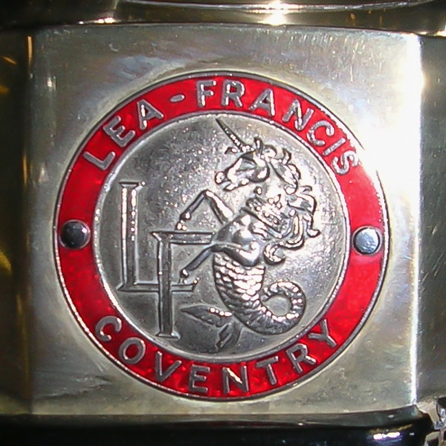 Lea-Francis radiator badge